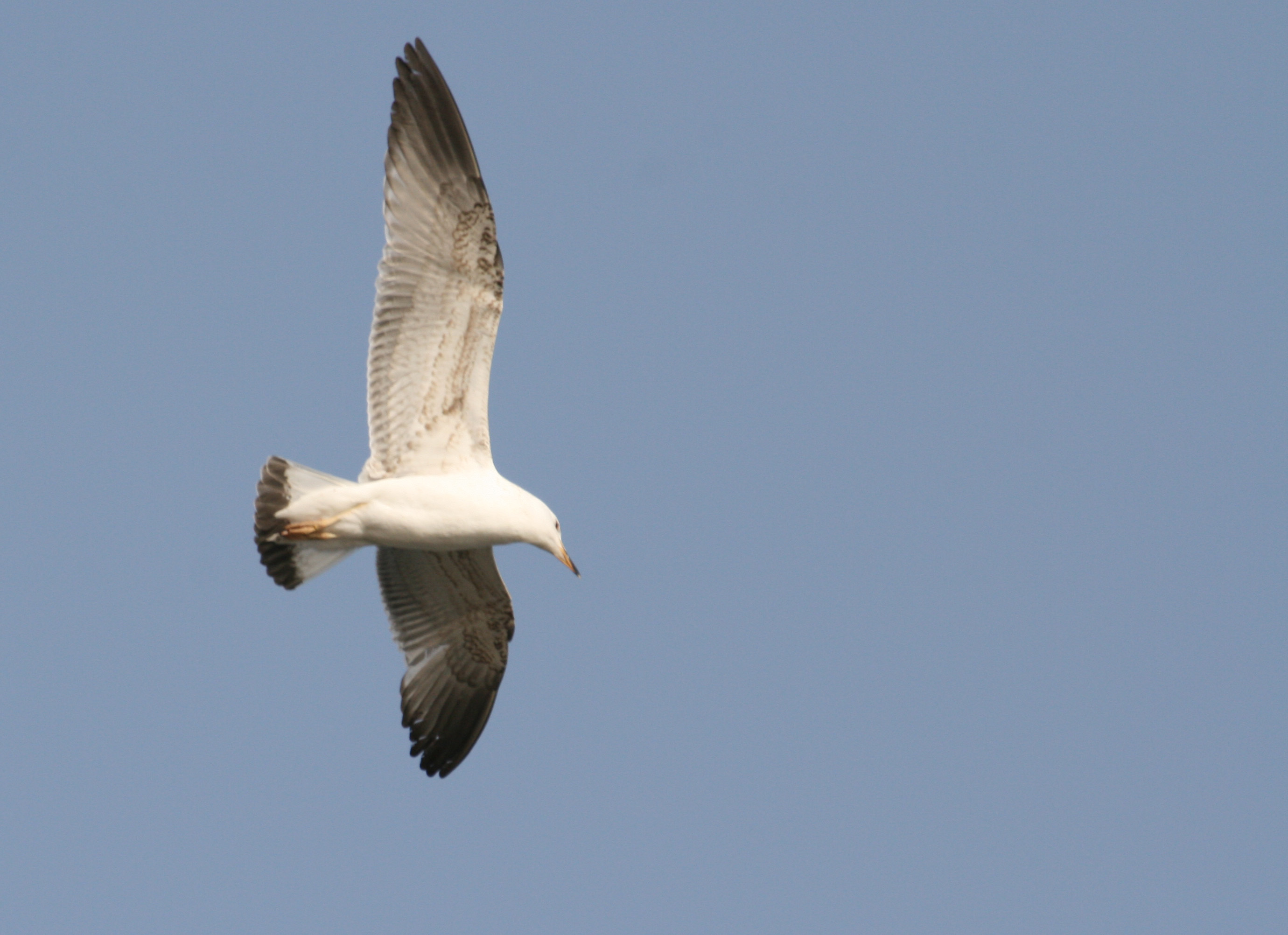 Armenian Gull juvenile in flight, near Sevan lake